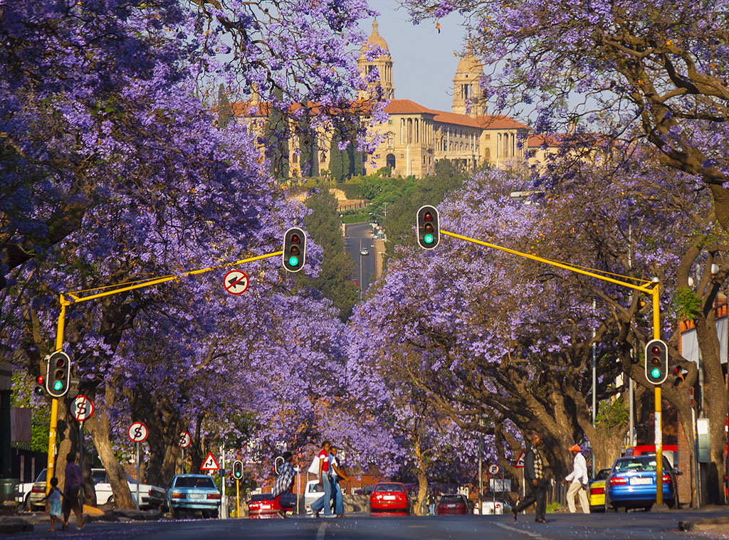 Jacaranda trees in Pretoria which covers Pretoria in a purple blanket during October, hence the name- Jacaranda city, Due to excessive rains the jacarandas were not quite as colourfull this year, this is a much older photo with the Union Buildings in the background.